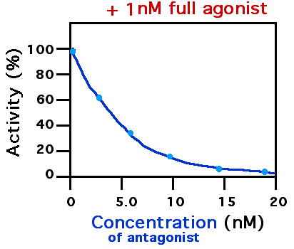 Antagonists block receptors. Source: I made this diagam with ClarisDraw.